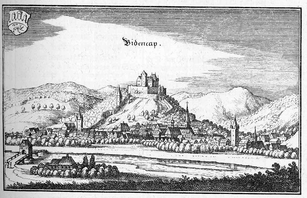 Copper engraving of a cityscape/veduta of the hessian town Biedenkopf, part of Topographia Hassiae